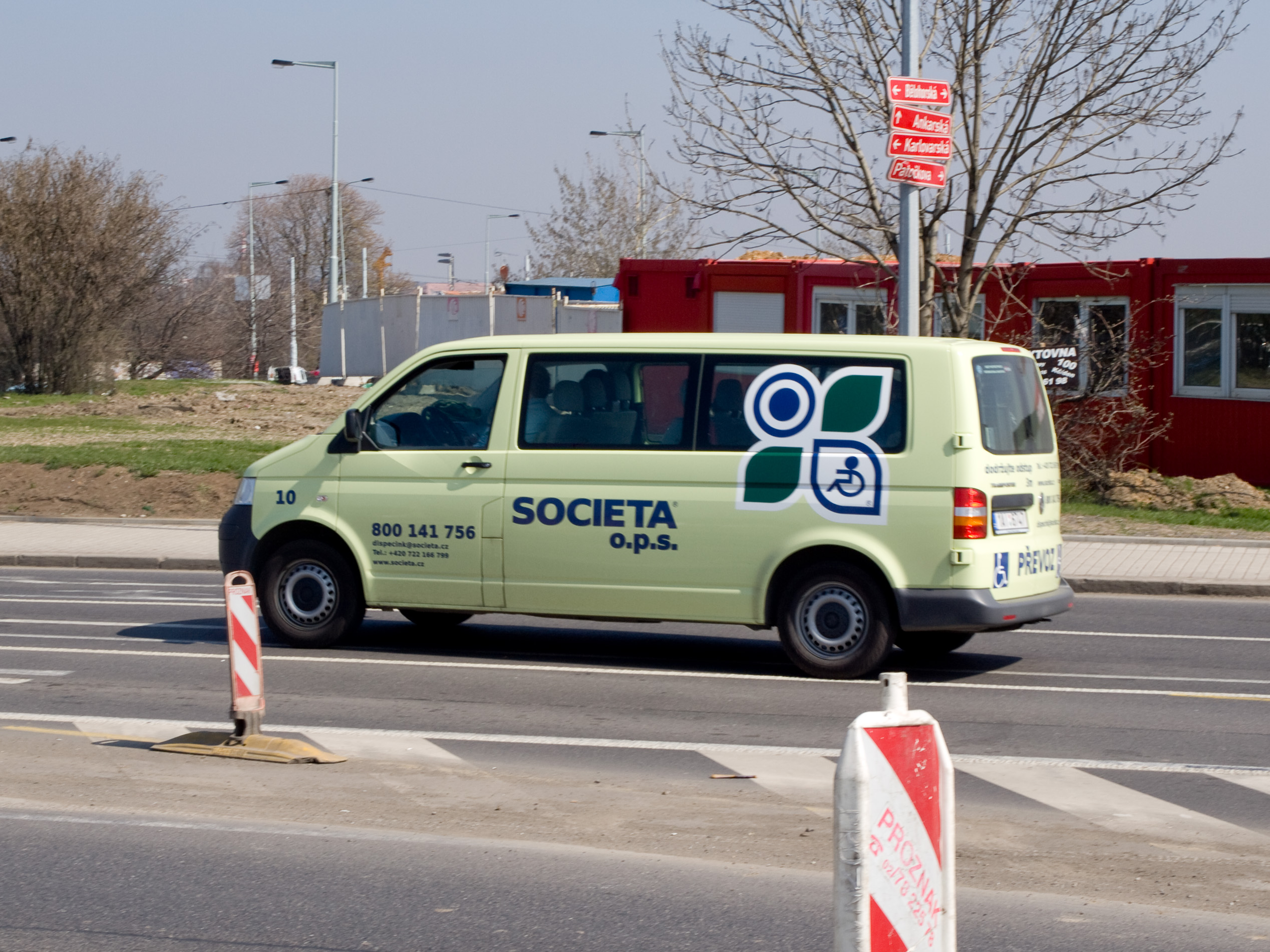 Microbus using for invalid people transportion, Vypich, Prague 6